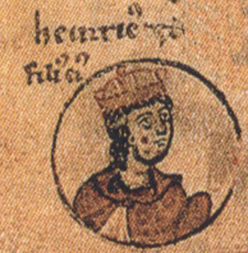 Henry (VII) of Germany